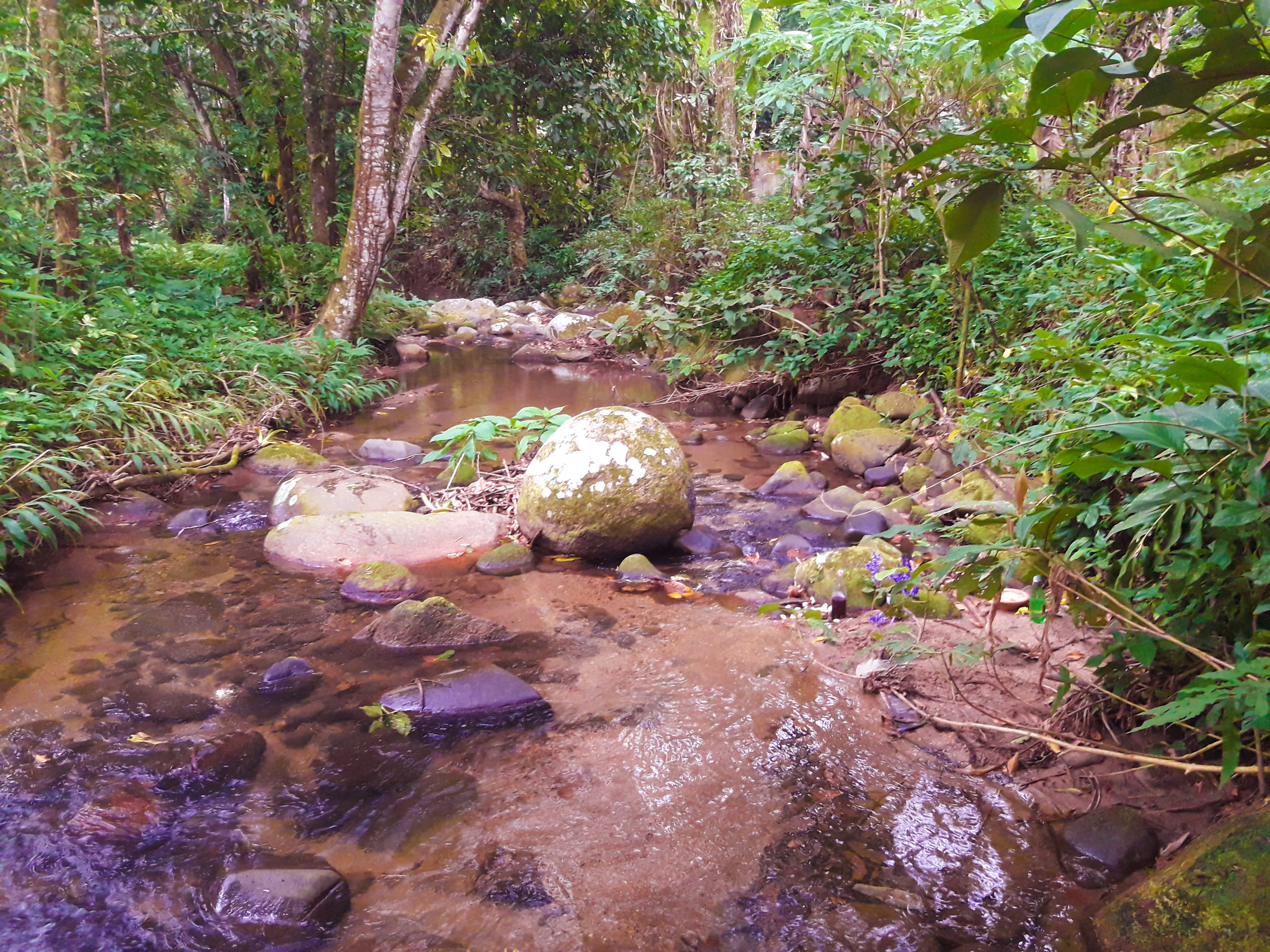 Waterfalls in the Vargem Grande neighborhood, Rio de Janeiro, RJ. Locally known as "Poço Dantas"